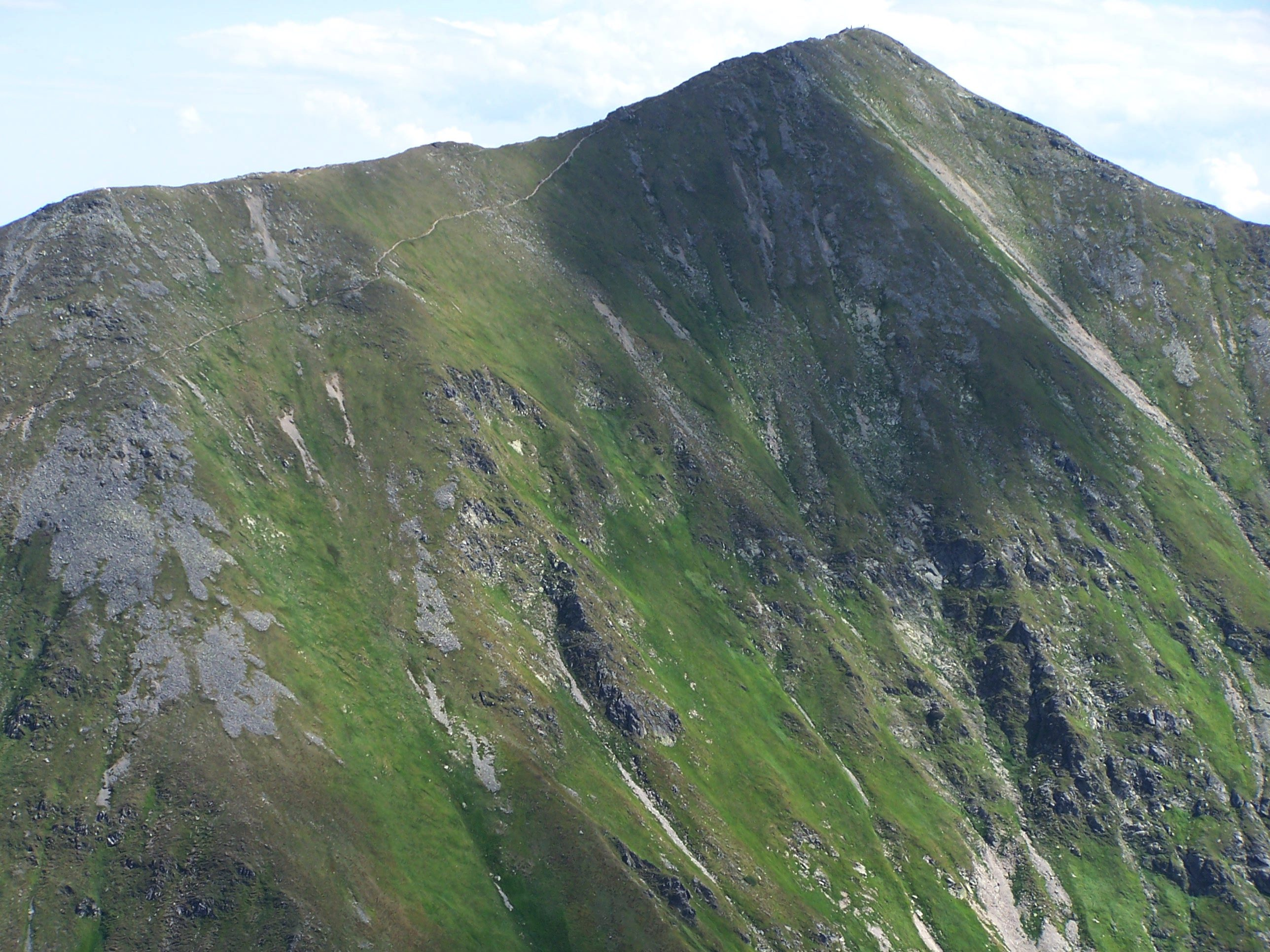 Bystra (Tatra Mountains)